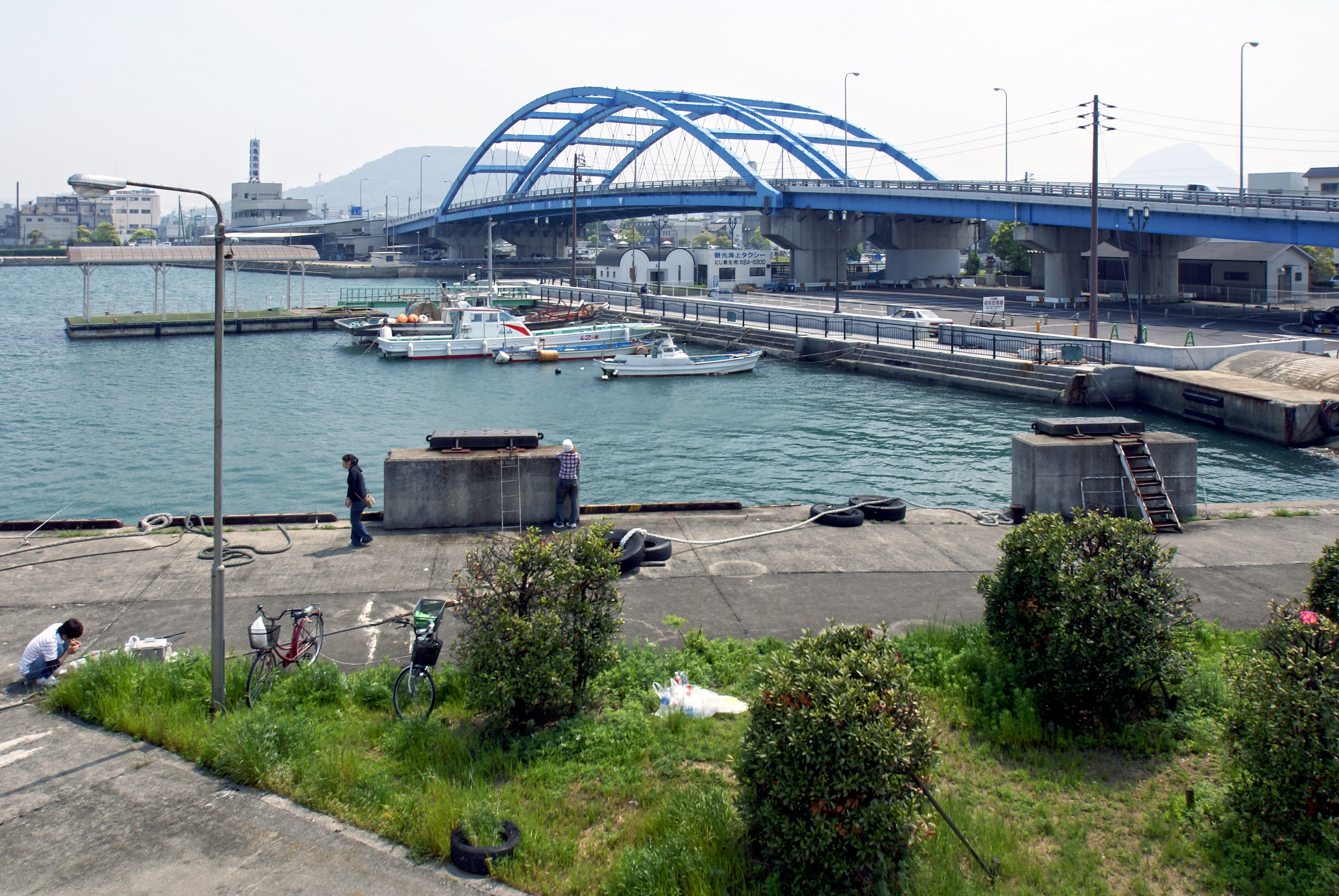 At Marugame Port in Marugame, Kagawa prefecture, Japan